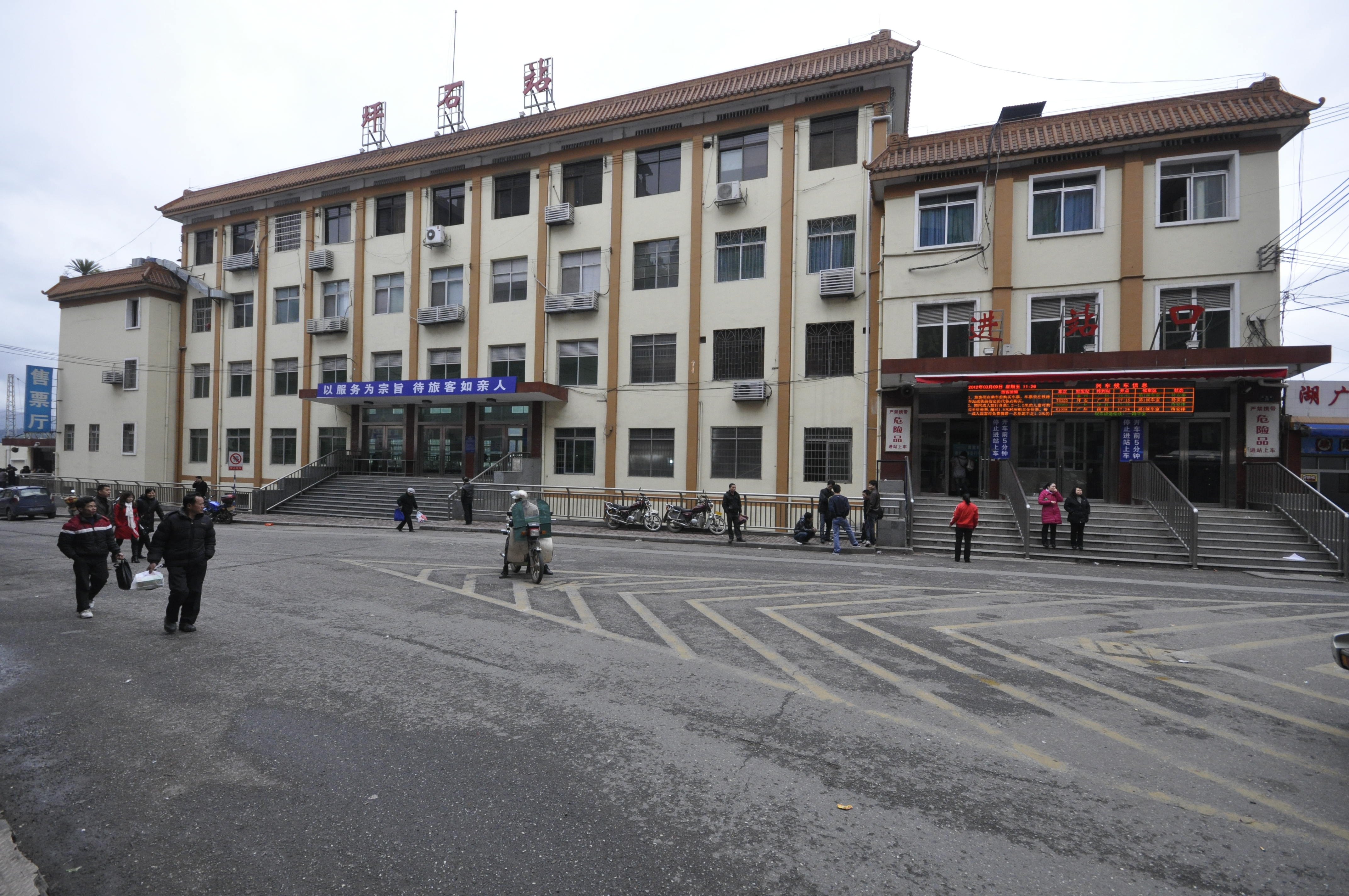 Pingshi Railway Station, Shaoguan, Guangdong Province, PR CHINA